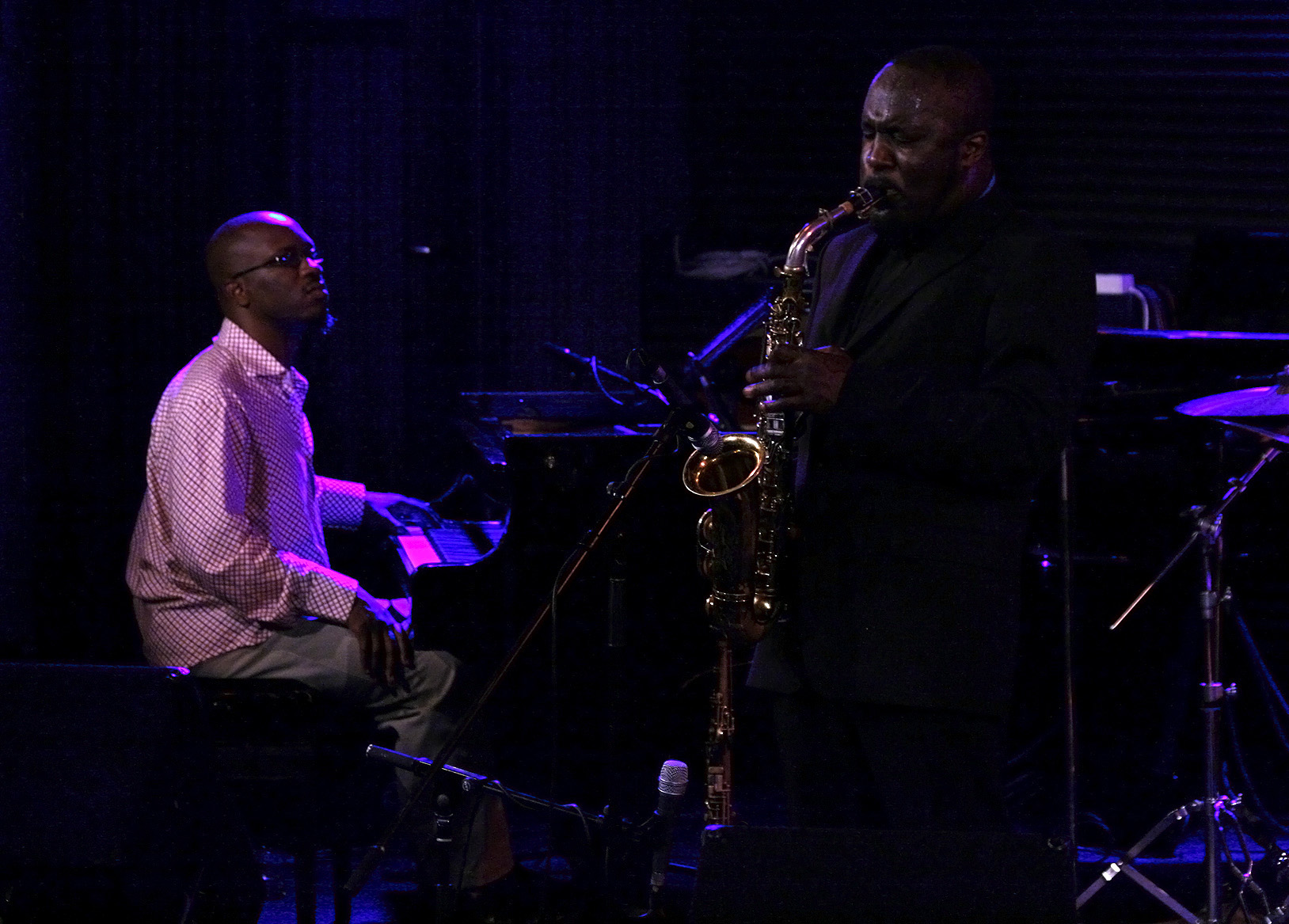 Jamaaladeen Tacumas Coltrane Configurations with Tony Kofi (sax.), Orrin Evans (p.) and Tim Hutson (dr.) at the Reigen in Vienna (Austria).